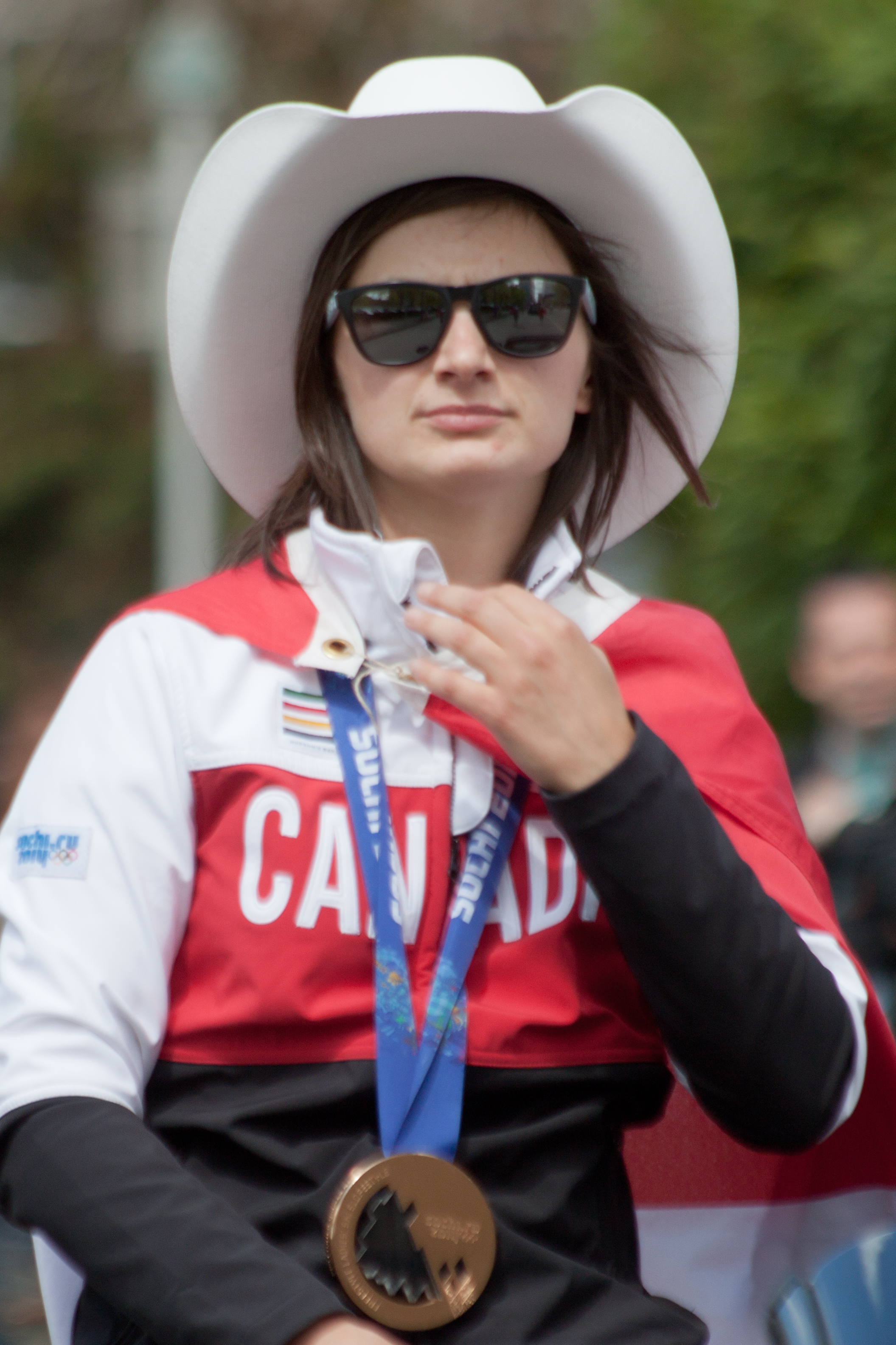 This is Canadian Olympian Kim Lamarre at the Parade of Champions held in Calgary, Alberta on June 6, 2014.